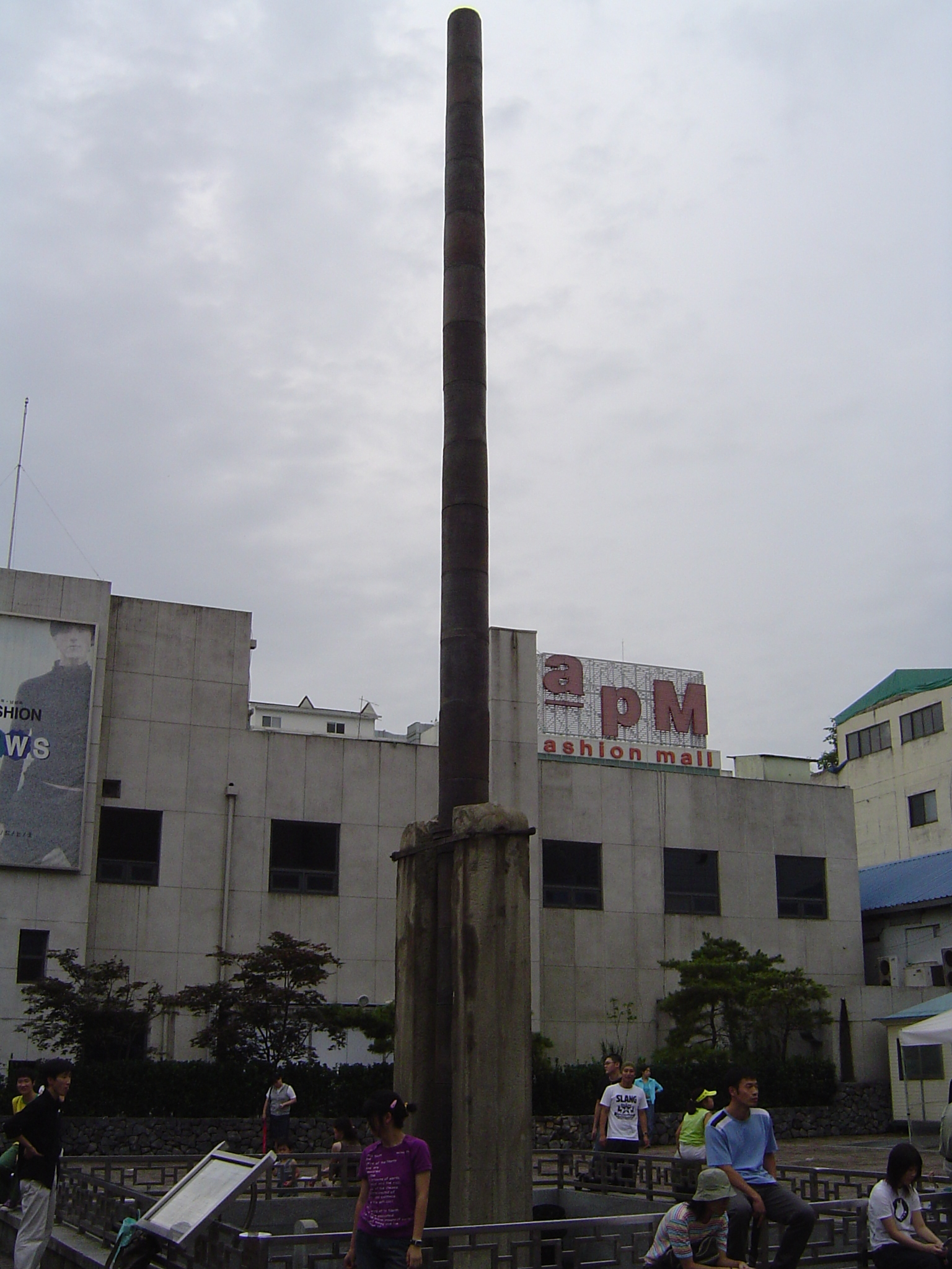 Flagpole downtown Cheongju. National Treasure 41 Reoriented version of cheongjuflagpole.jpg